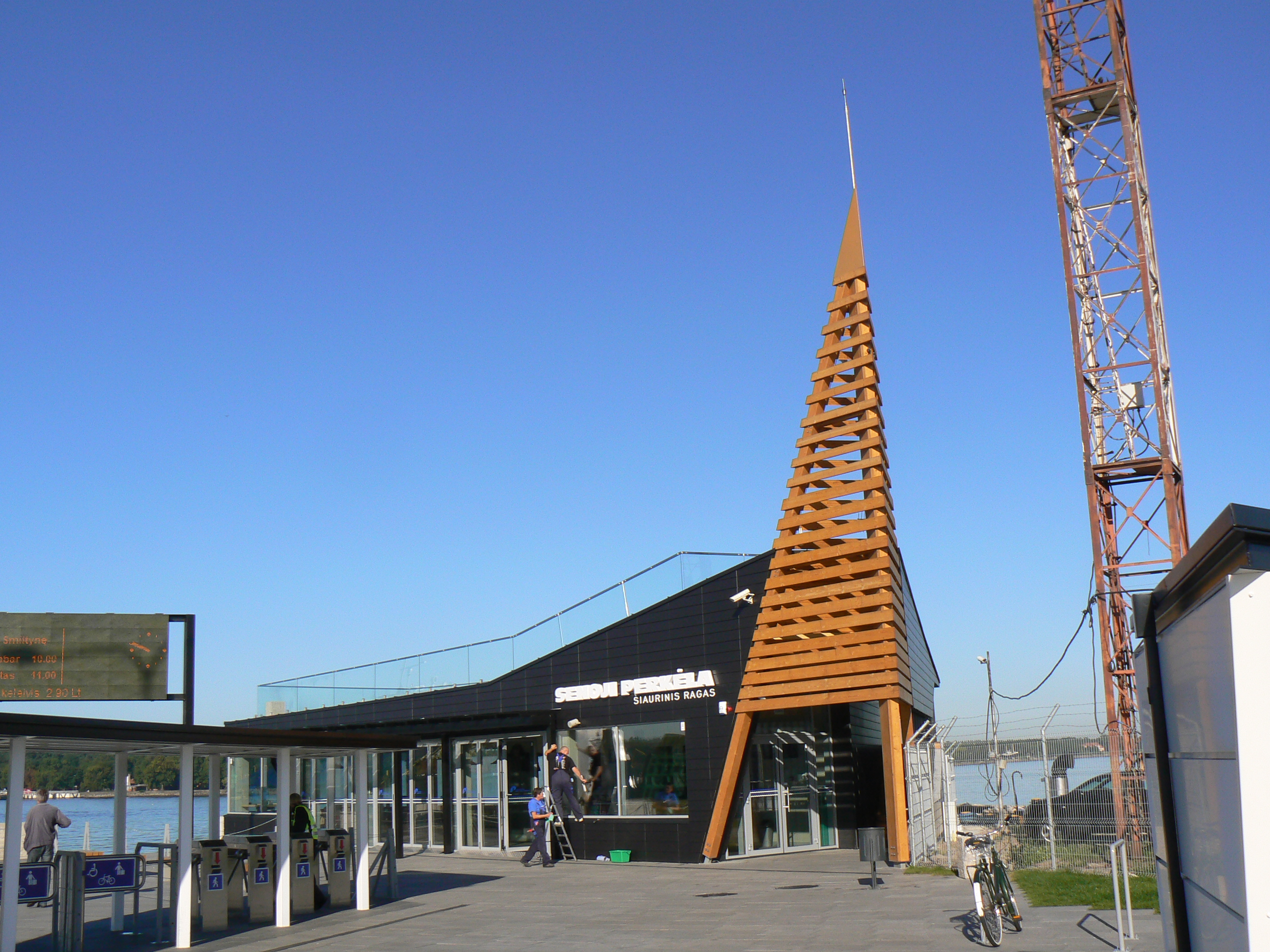 "Old" ferry port in Klaipėda city